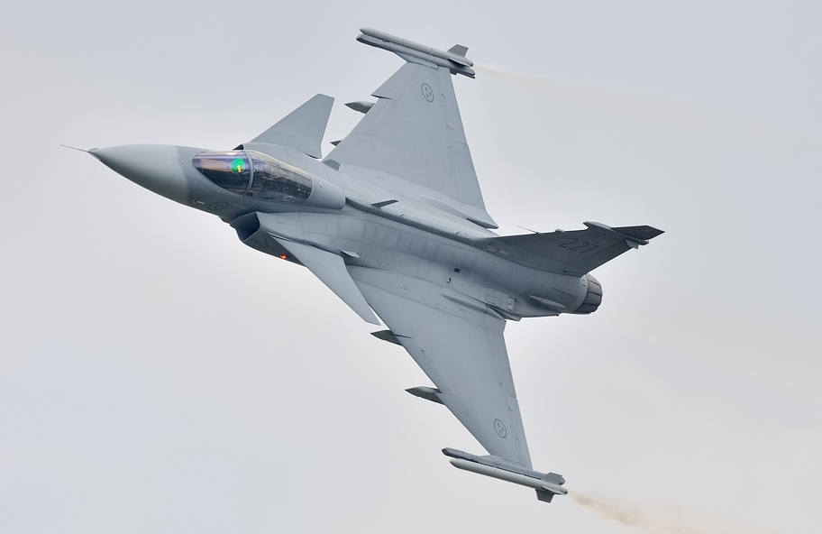 JAS 39 over Royal International Air Tattoo